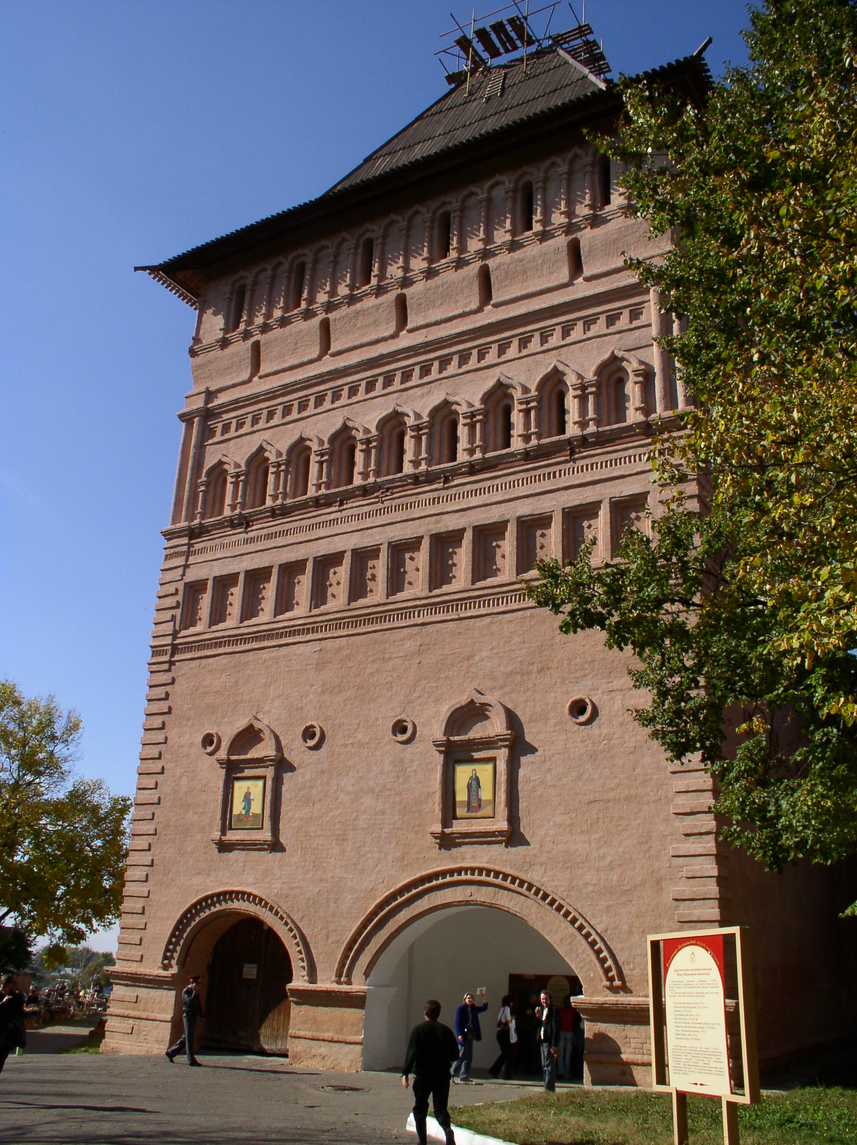 Main tower. Saint Euthymius monastery. Suzdal, Russia.